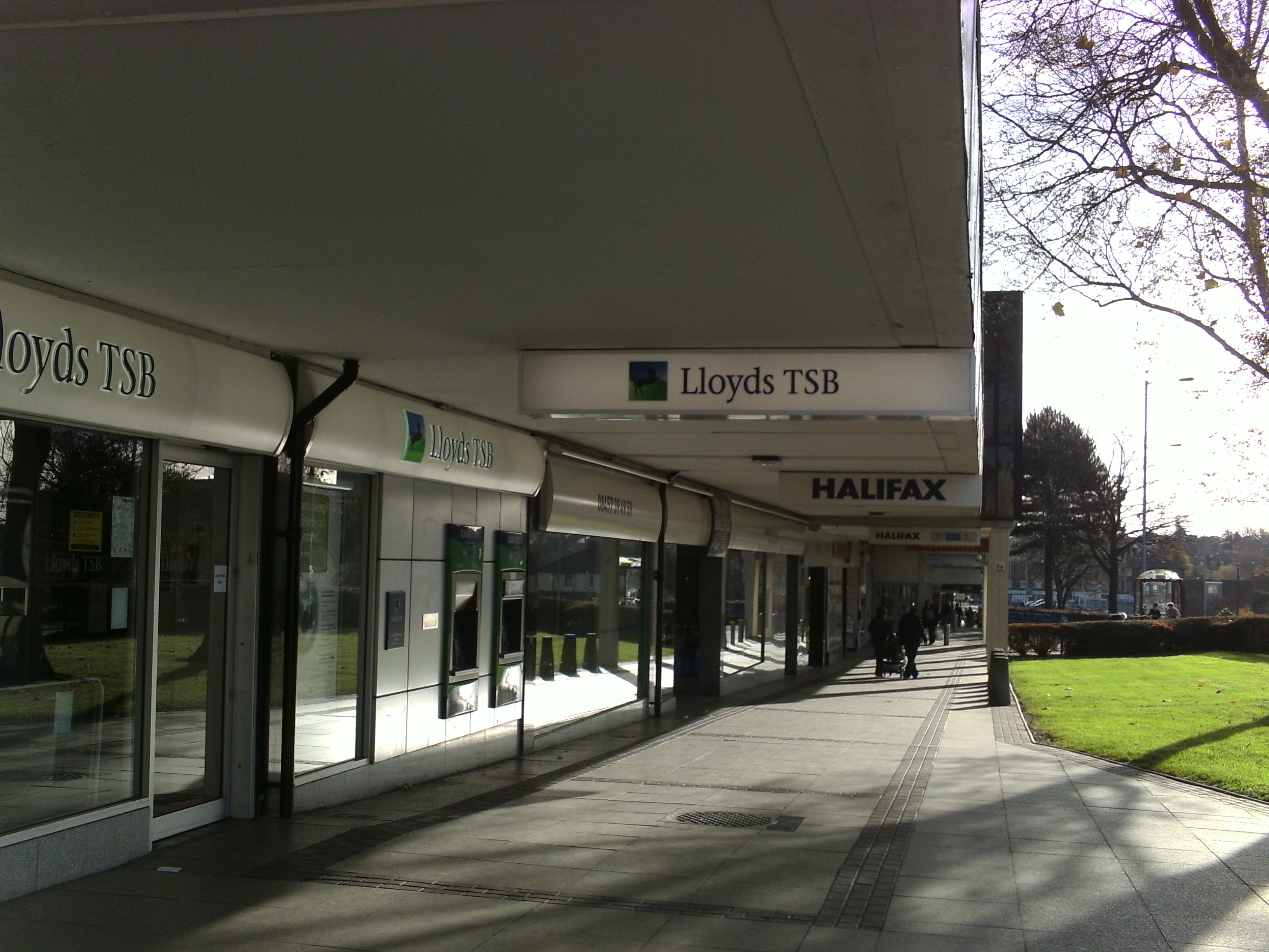 Halifax Bank and Lloyds Bank adjacedt in the Arndale Centre, Cross Gates, Leeds